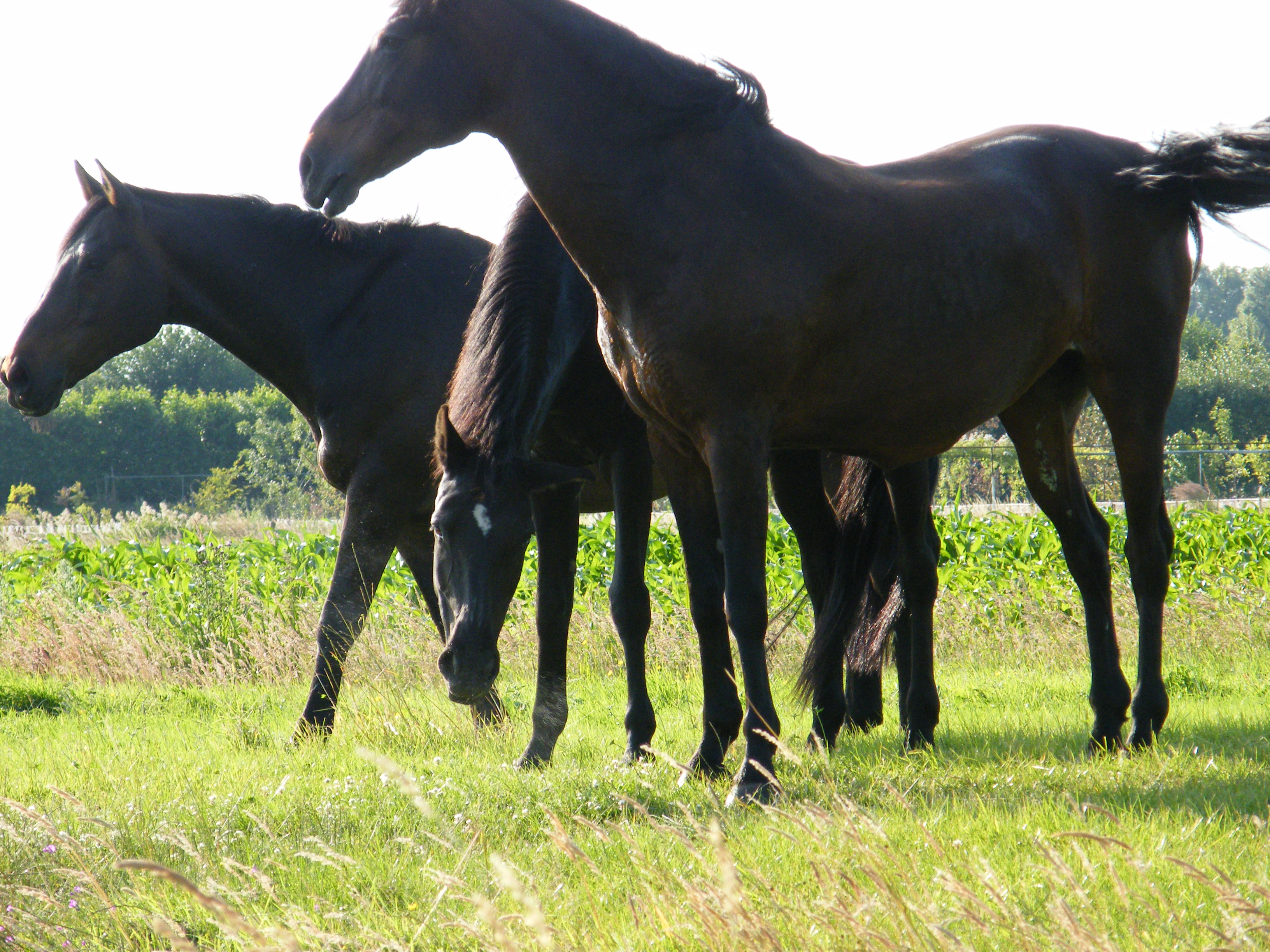 Three black horses standing together